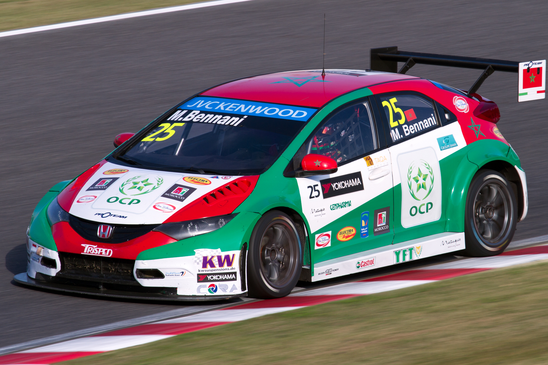 World Touring Car Championship 2014 Race of Japan: Mehdi Bennani (Proteam)